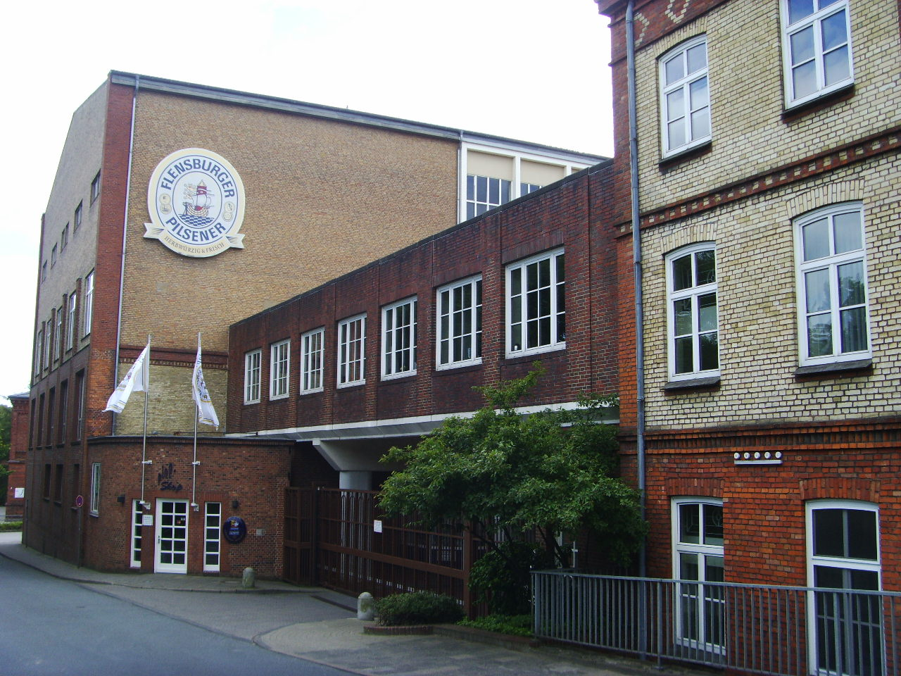 Flensburger Brauerei is a brewery located in Flensburg in the Bundesland (federal state) of Schleswig-Holstein, Germany. It is one of the last country-wide operating breweries not being part of a larger brewery group. The company was founded on September 6th, 1888 by five citizens of Flensburg. Today it is still mainly held by the founder families Petersen and Dethleffsen.